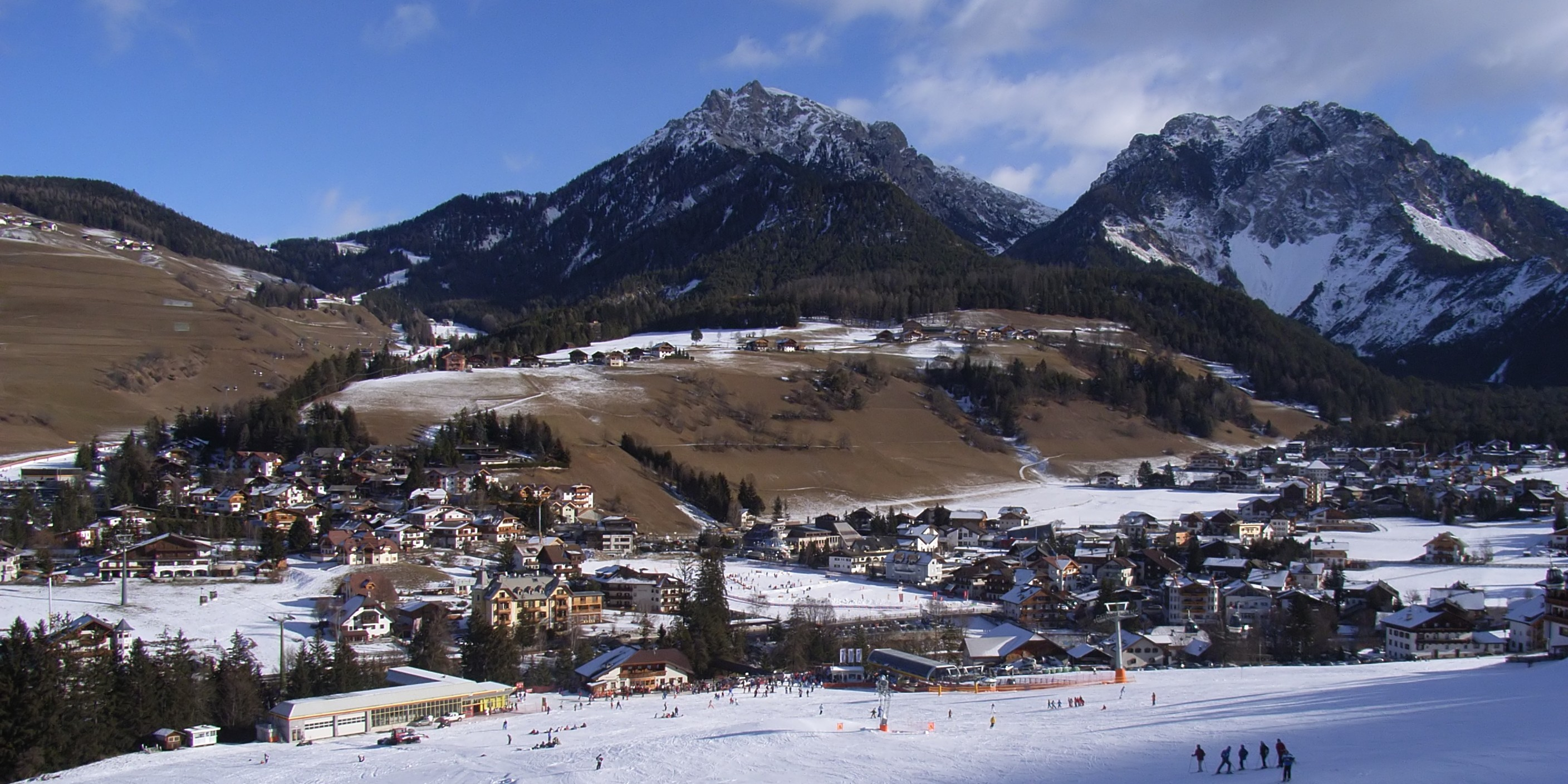 Italy, South Tyrol: St. Vigil in Enneberg (italian San Vigilio di Marebbe).